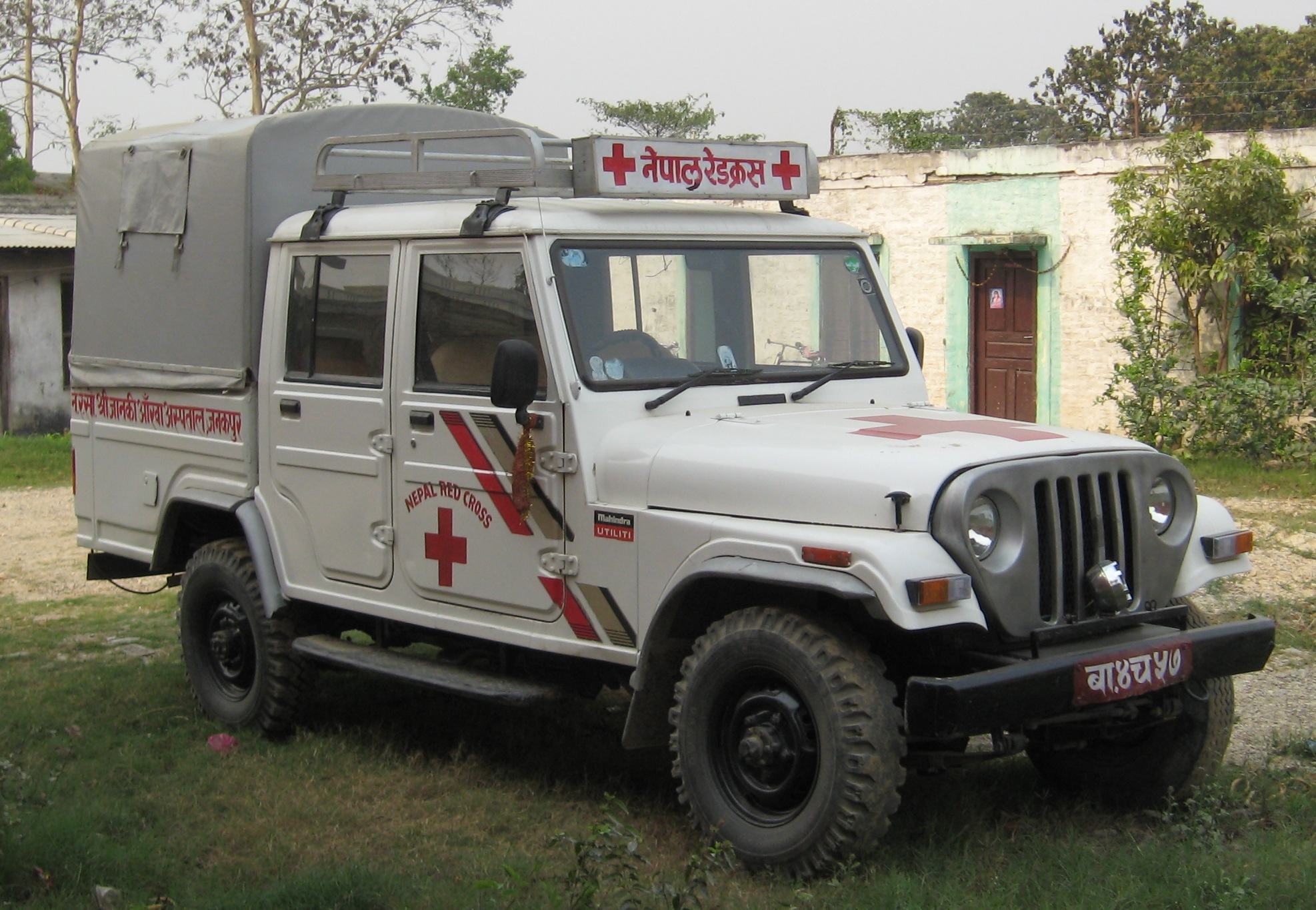 Mahindra Utiliti in Janakpur, Nepal, at the Hospital for ophthalmology. The Utiliti was a double-cab truck version of the Mahindra Armada and Marshal models with which it was sold in parallell. It was replaced by the lightly redesigned Mahindra Bolero Camper.